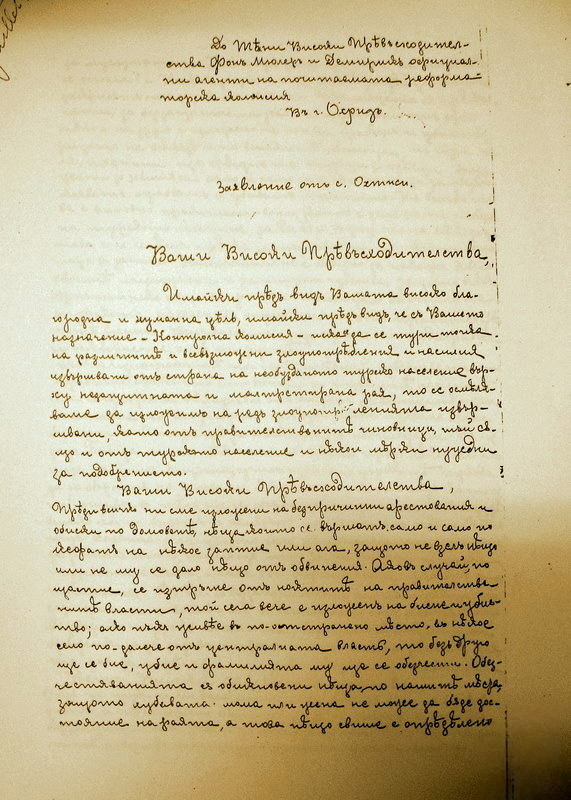 A written complaint of the people of Oktisi to the representative of the European powers in Ohrid about the grave position of the population after the Ilinden Uprising.